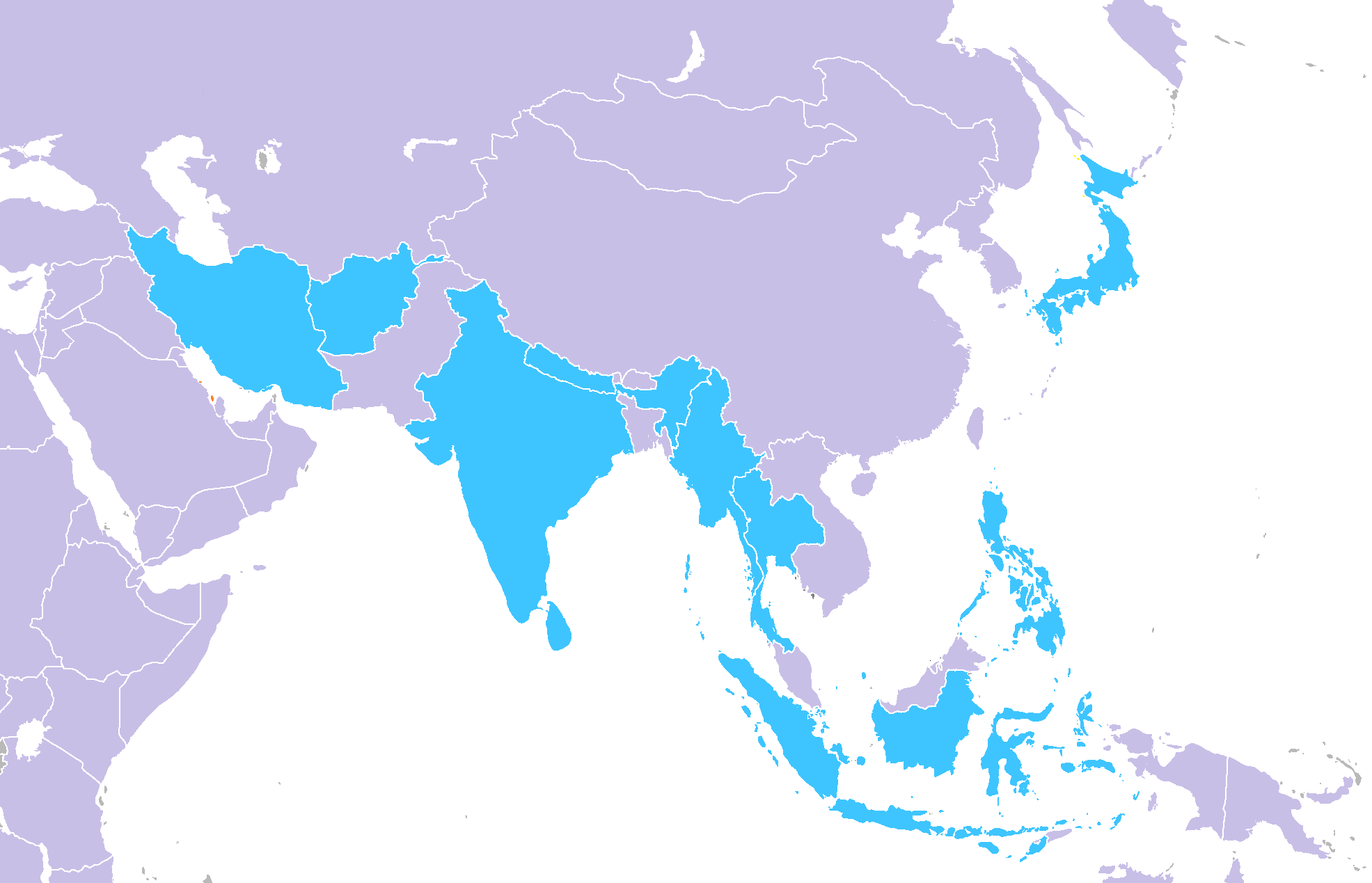 Countries which participated in the 1951 Asian Games. Red circle shows the host city Delhi.